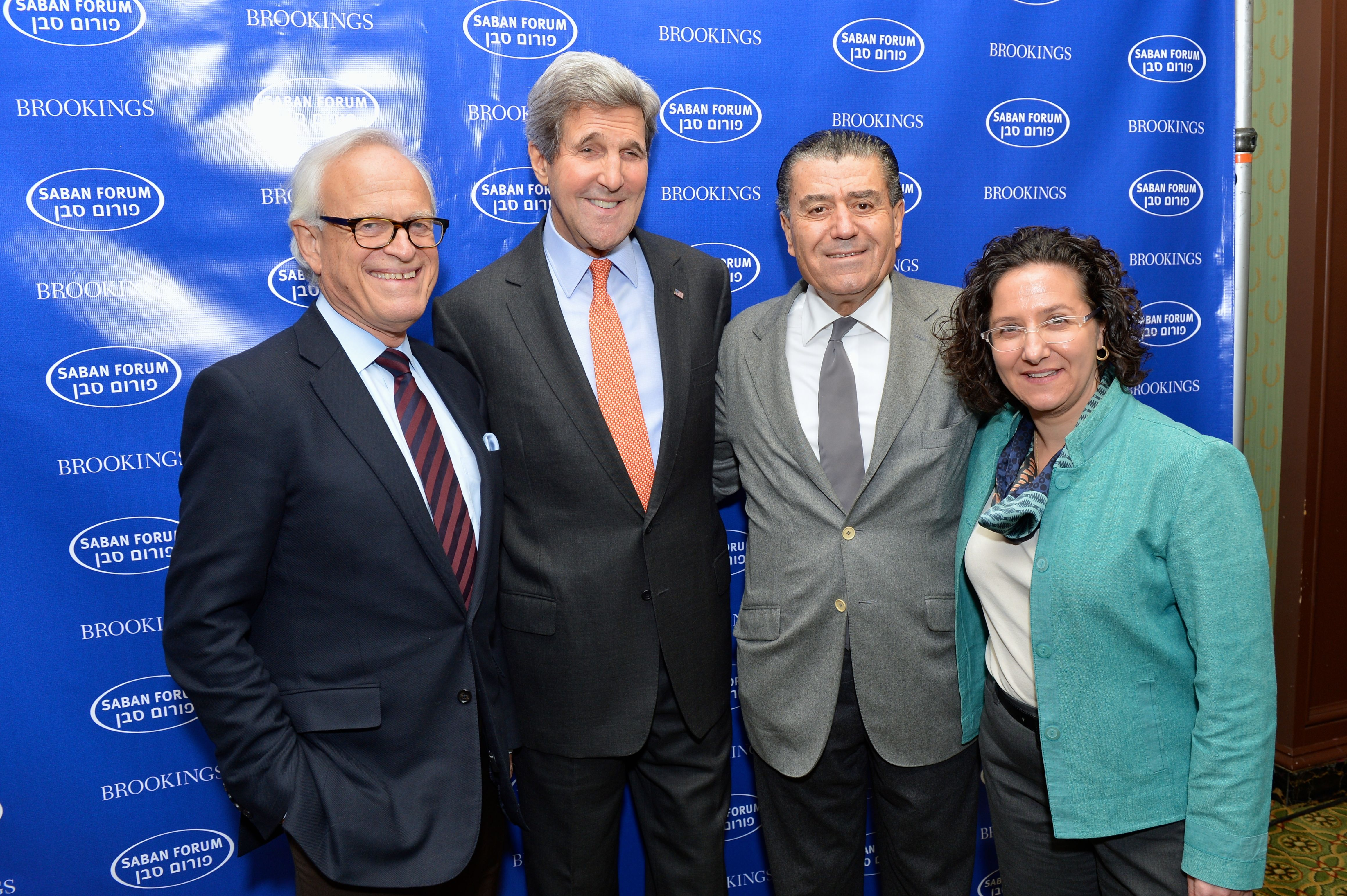 U.S. Secretary of State John Kerry poses for a photo with Ambassador Martin Indyk, Brookings' vice president and director of the Foreign Policy Program, and Saban Forum Chairman Haim Saban at the Brookings Institution's 2014 Saban Forum in Washington, D.C., on December 7, 2014. [State Department photo/ Public Domain]